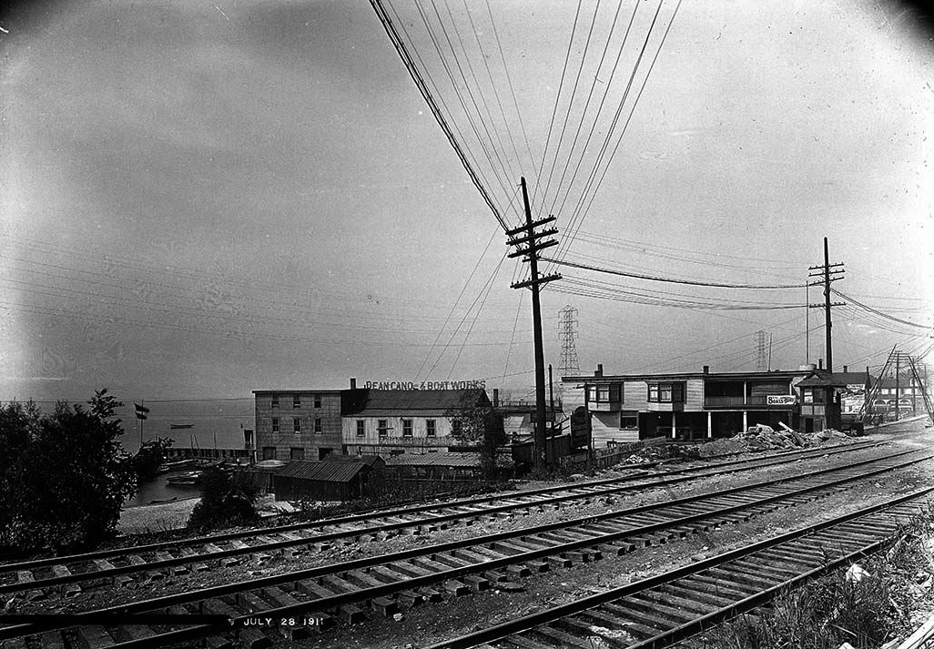 View of Dean's Canoe and Boat Works and other waterfront buildings.